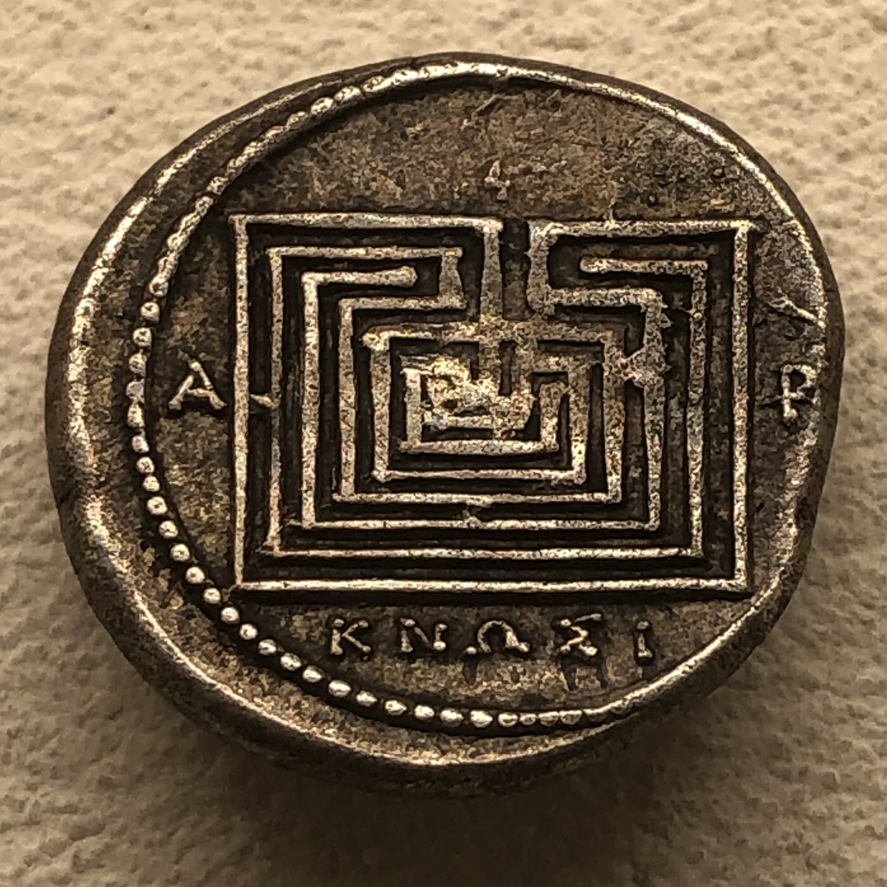 Stater (silver coin) minted in Knossos, Crete around 300 - 270 BC. Photograph taken at TEFAF 2020.